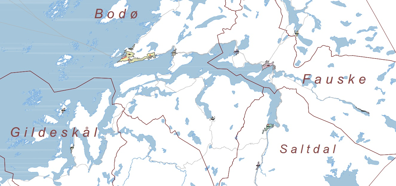 Urban areas in the Norwegian city region of Bodø